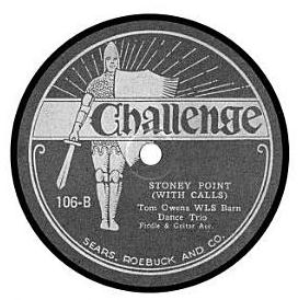 Challenge label, subsidiary of plaza Records, distributed by Sears, Roebuck in the 1920s. Particular recording pictured: "Stoney Point (With Calls)" Tom Owens WLS Barn Dance Trio. Sears began and owned the radio station WLS and its National Barn Dance at the time of this record.